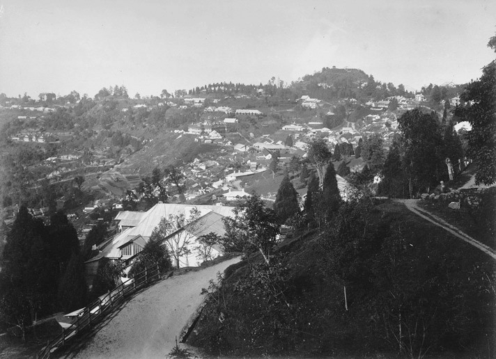 Darjeeling Street scene. The majority of the prints in this collection entitled 'Album of views of India and Ceylon' are unsigned, however the Darjeeling views may be the work of Johnston & Hoffmann as the company maintained a studio there. (British Library)